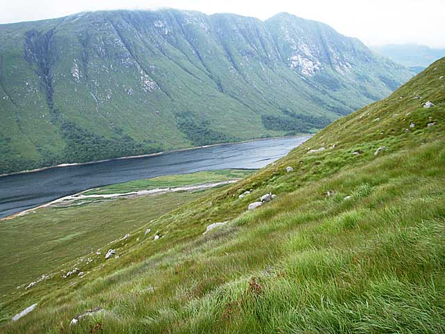 Descending to Loch Etive Beinn Trilleachan and the Trilleachan Slabs are on the other side of Loch Etive.